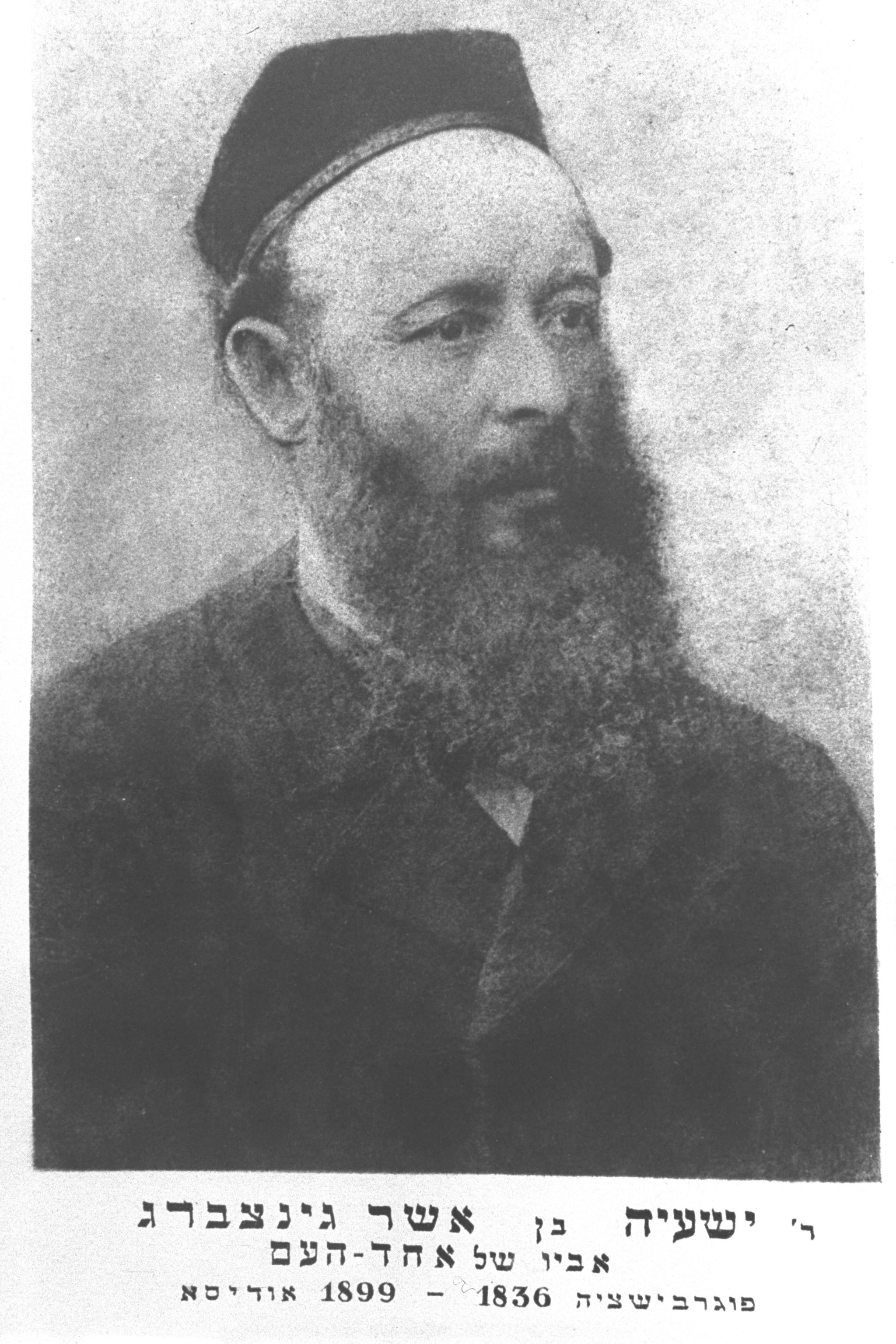 Rabbi Yeshaya Ginsberg, the father of Ahad Ha'am.